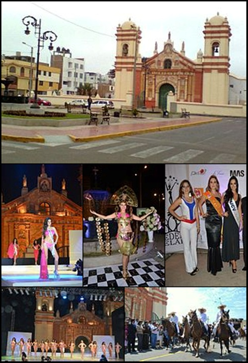 PhotomontageSantiagoDeHuamán